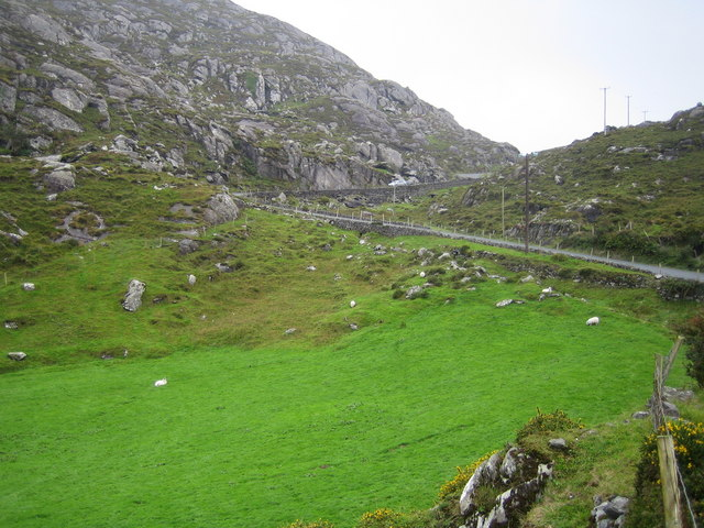 R575 road The R575 road from Eyeries to Allihies follows this pass between Eagle Hill to the right and Ballahghacaherren to the left.